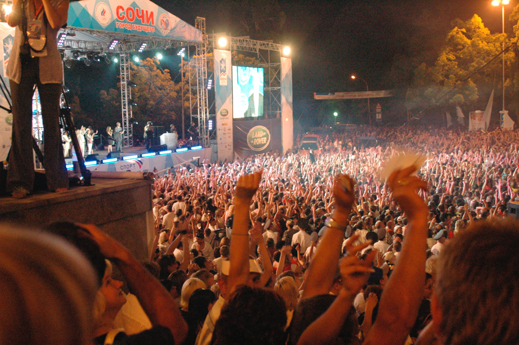 “Sochi residents celebrate IOC's decision to hold 2014 Winter Olympics in Sochi”. Announcing the International Olympic Committee's decision to hold the 2014 Winter Olympics in Sochi.